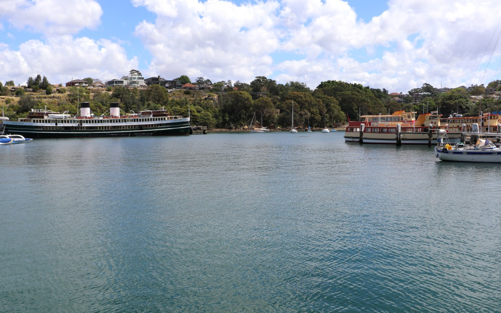 Berrys Bay & South Steyne. Port Jackson, NSW, Australia